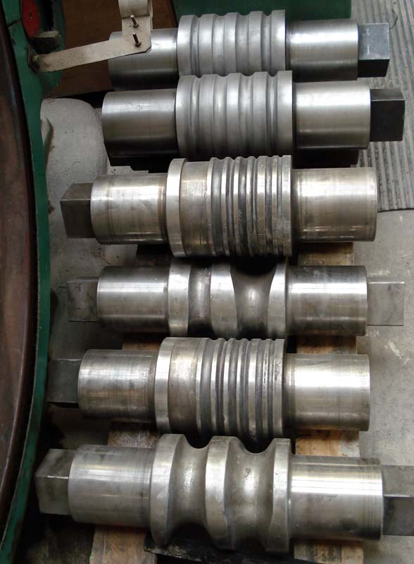 Rolls of experimental rolling stand